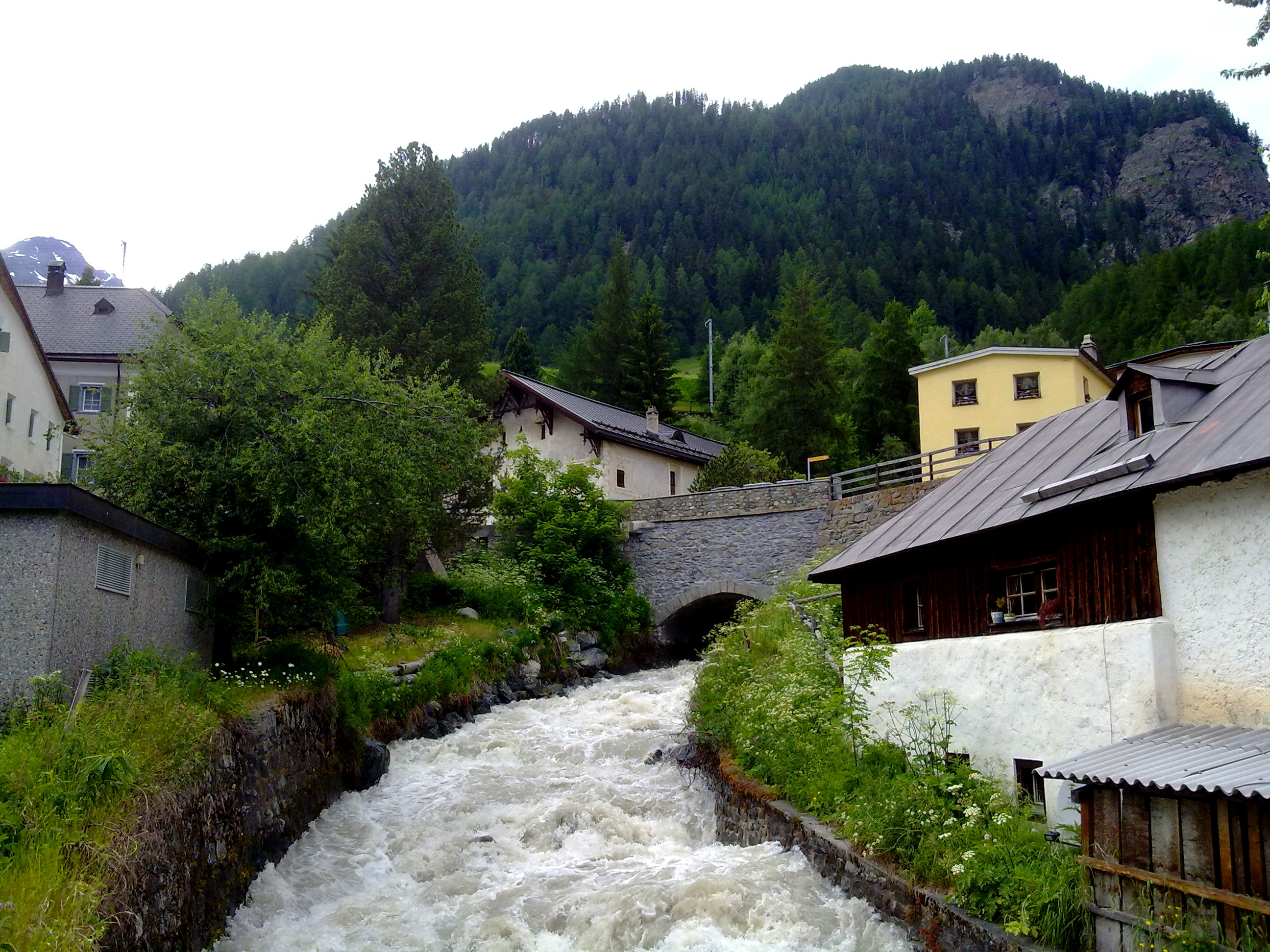 Lavinuoz, Lavin